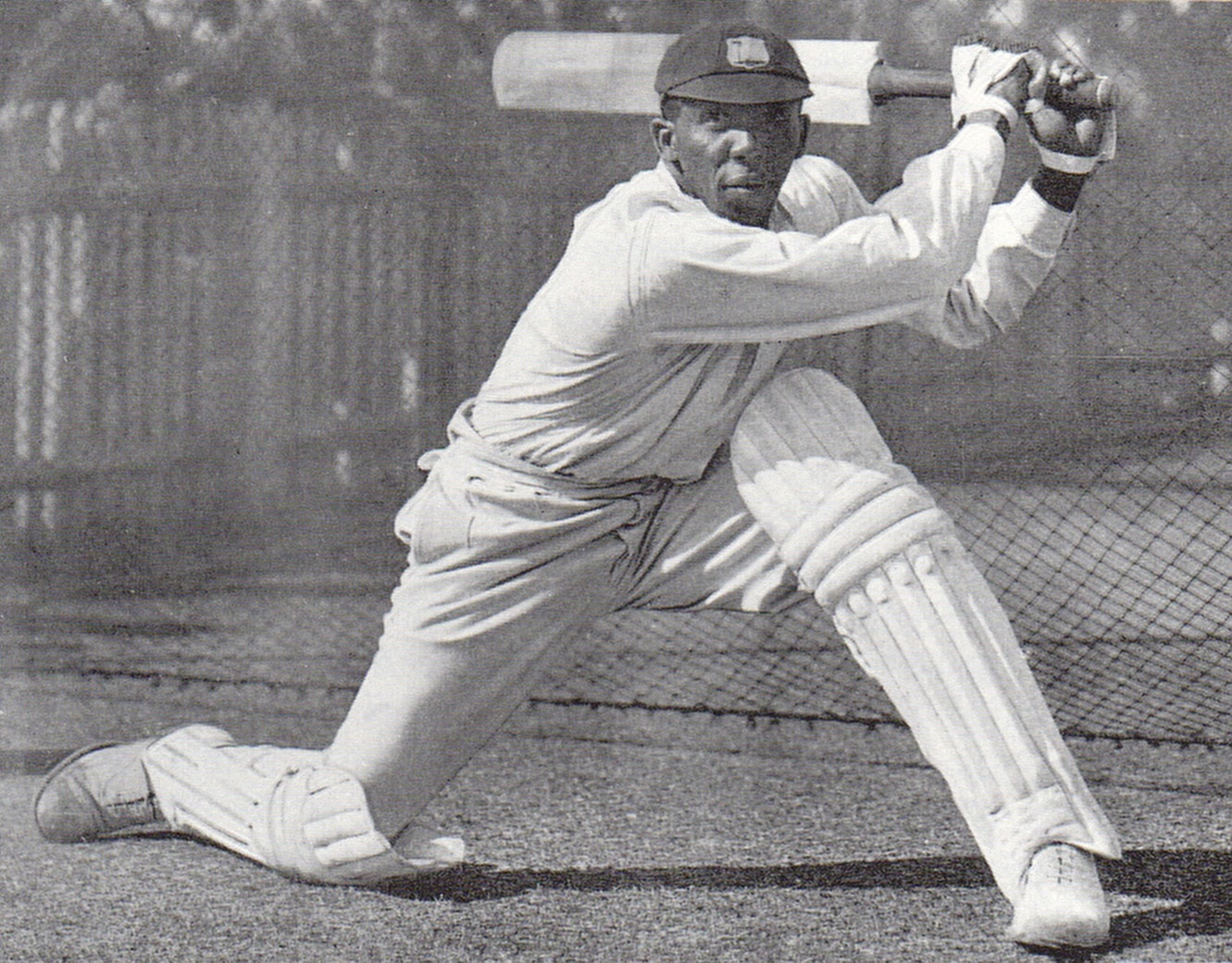 A photograph of Learie Constantine batting taken from the Sydney Mail of 26 November 1930.